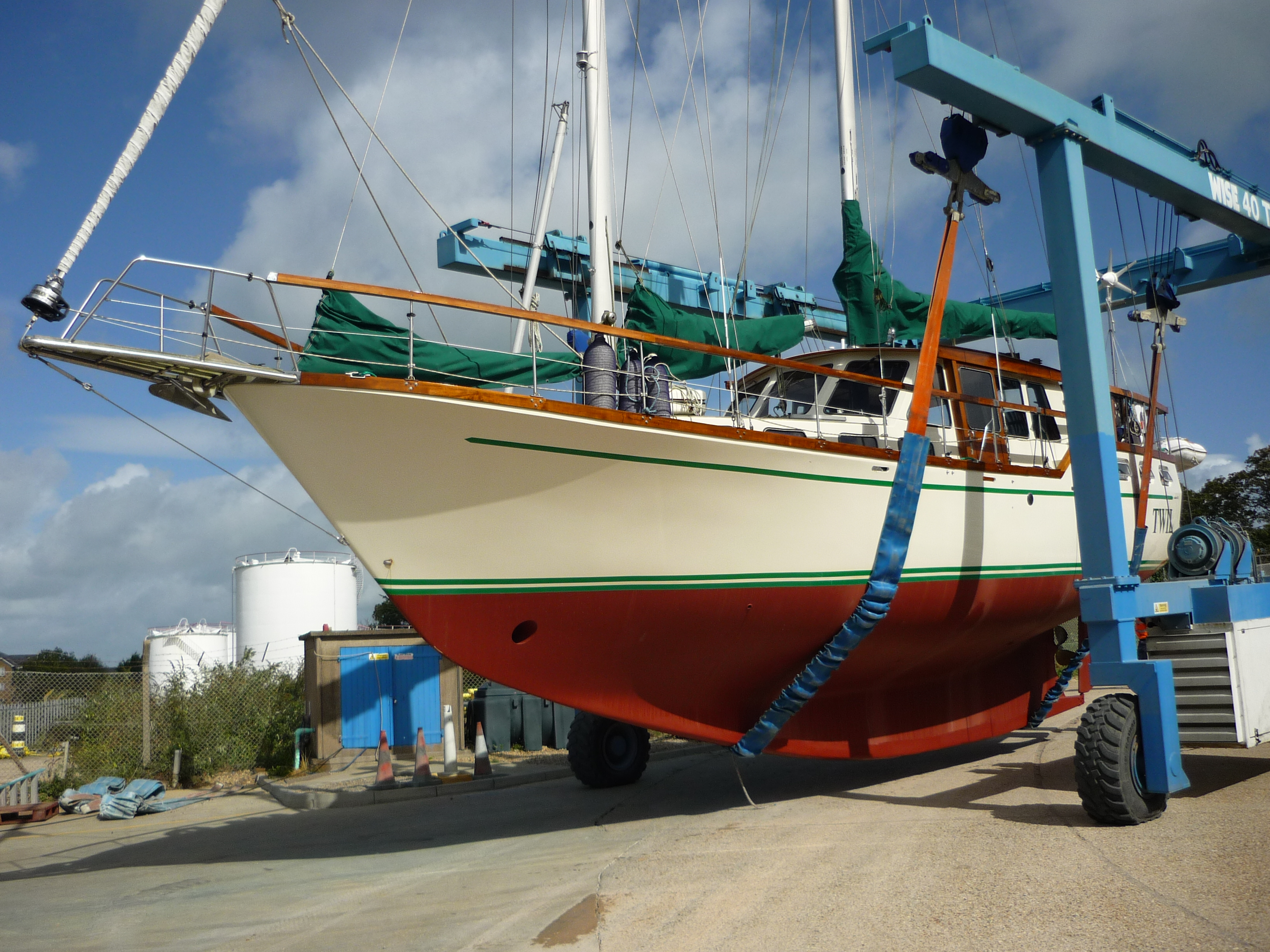 Image of a Nauticat 44 hull